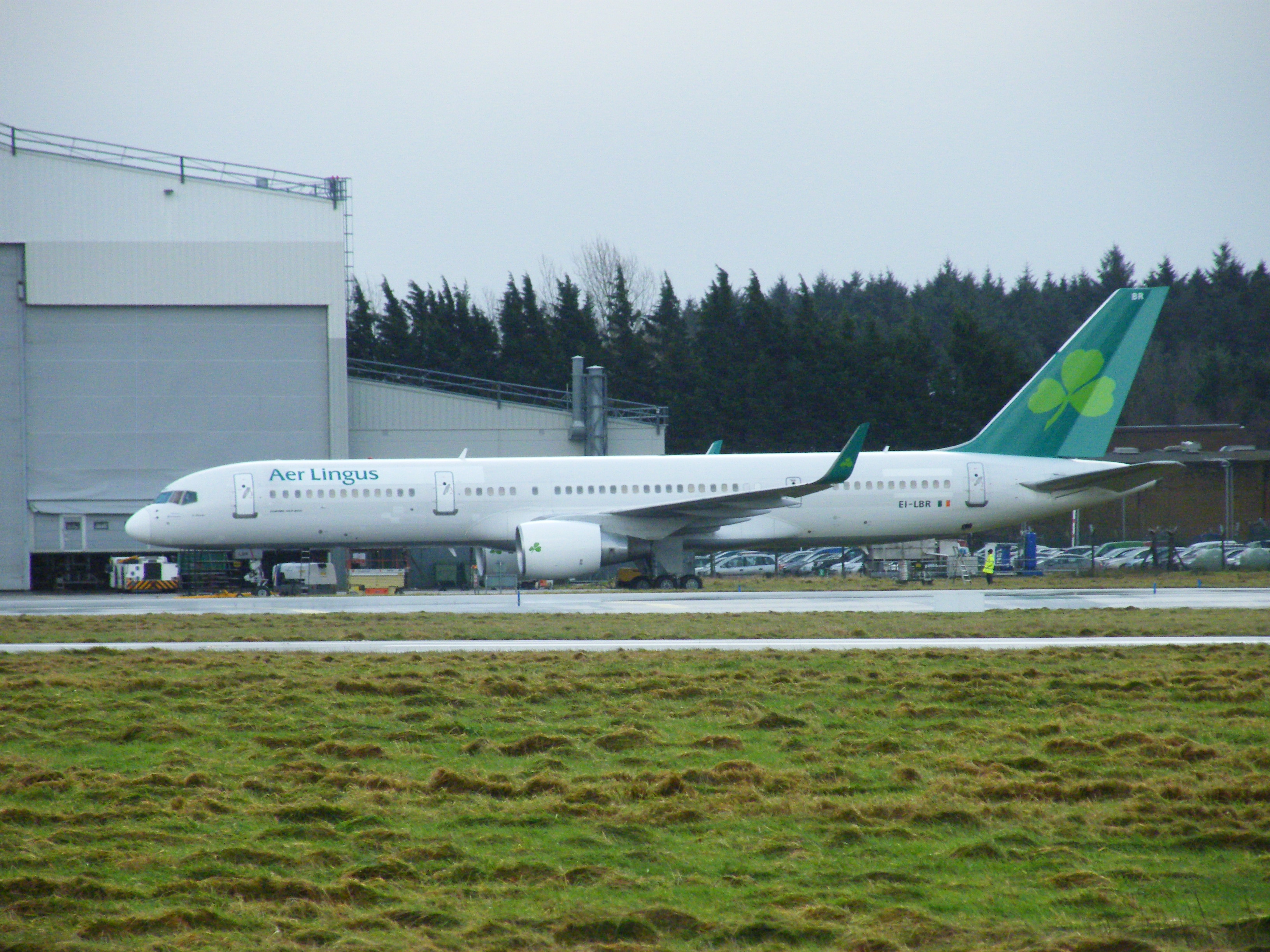 aer lingus EI LBR